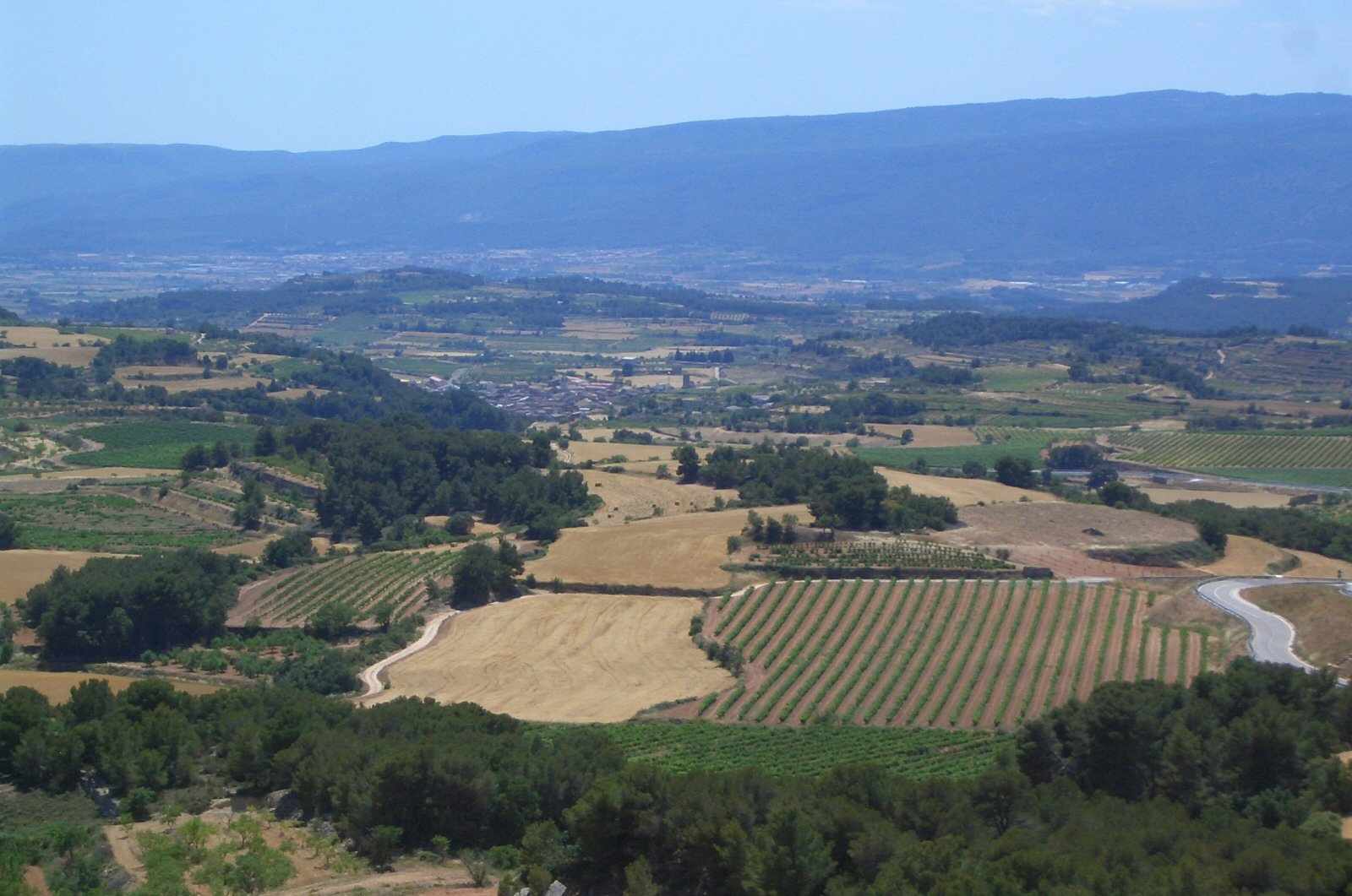 Partial view of the Conca de Barberà, Catalonia, Europe